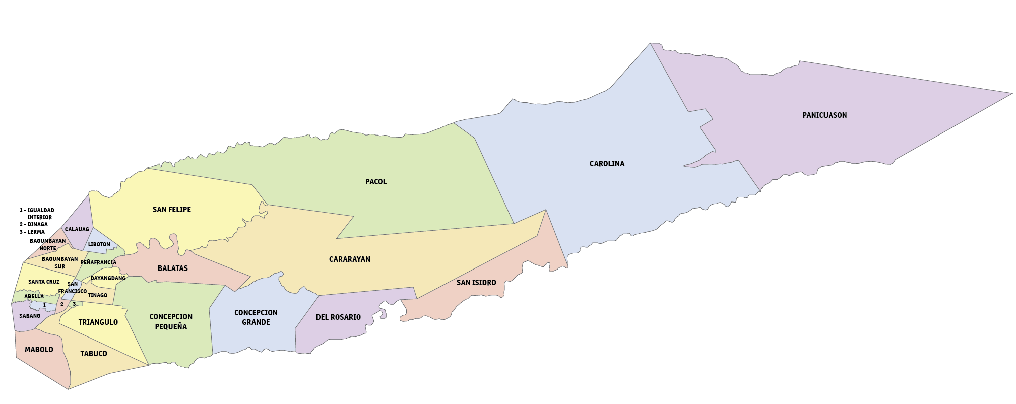 Politicial map of Naga, Camarines Sur